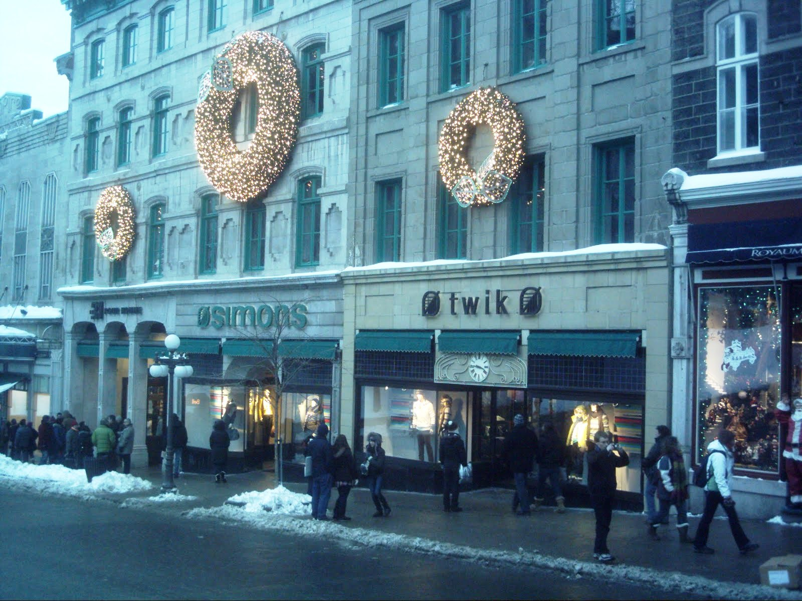 Simons, Quebec City